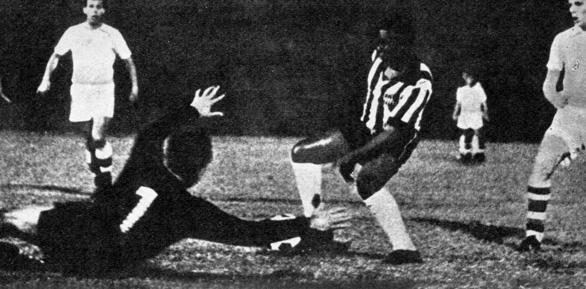 Coutinho scoring the first goal.